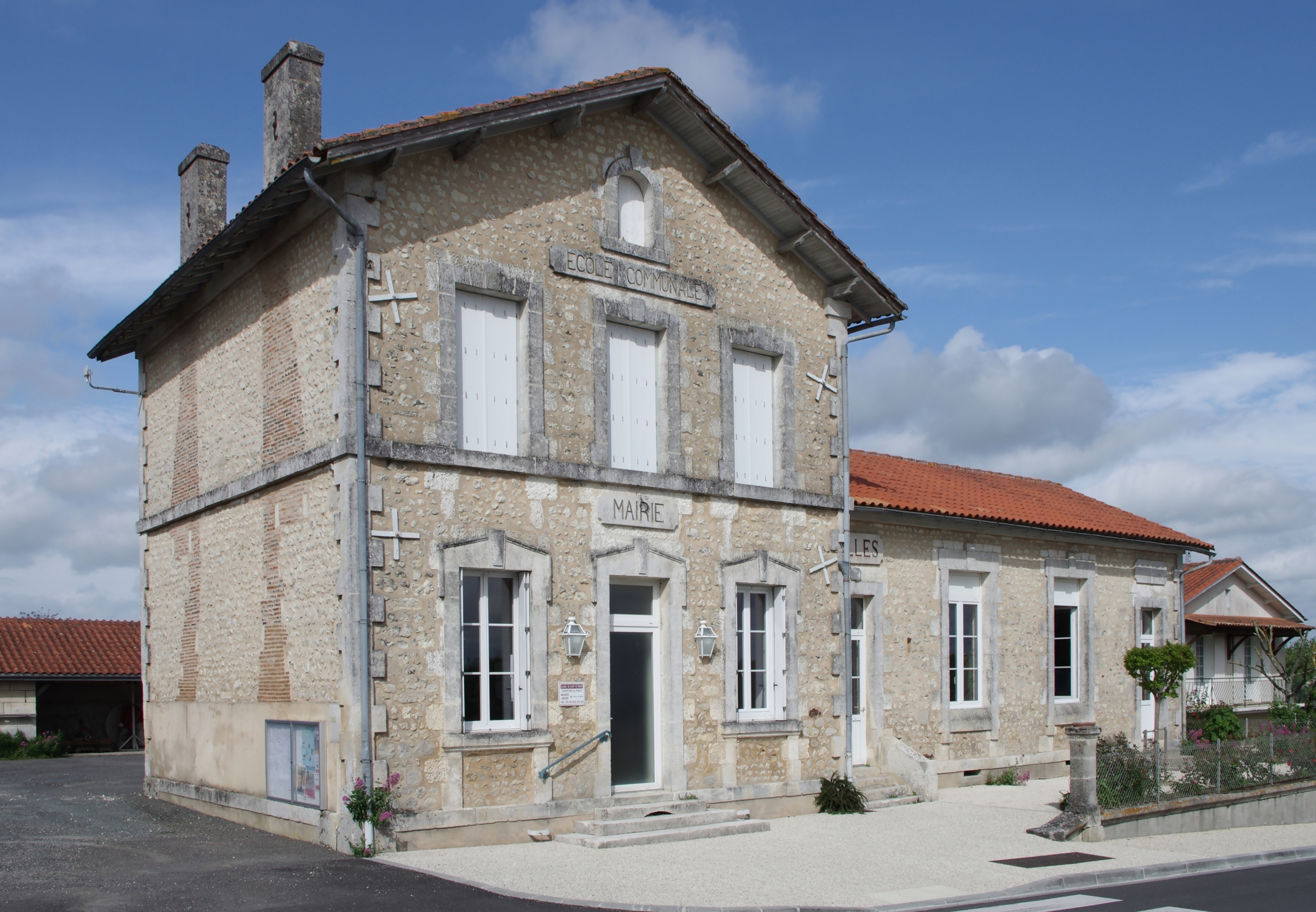 City hall of Saint-Eutrope,Charente, France.